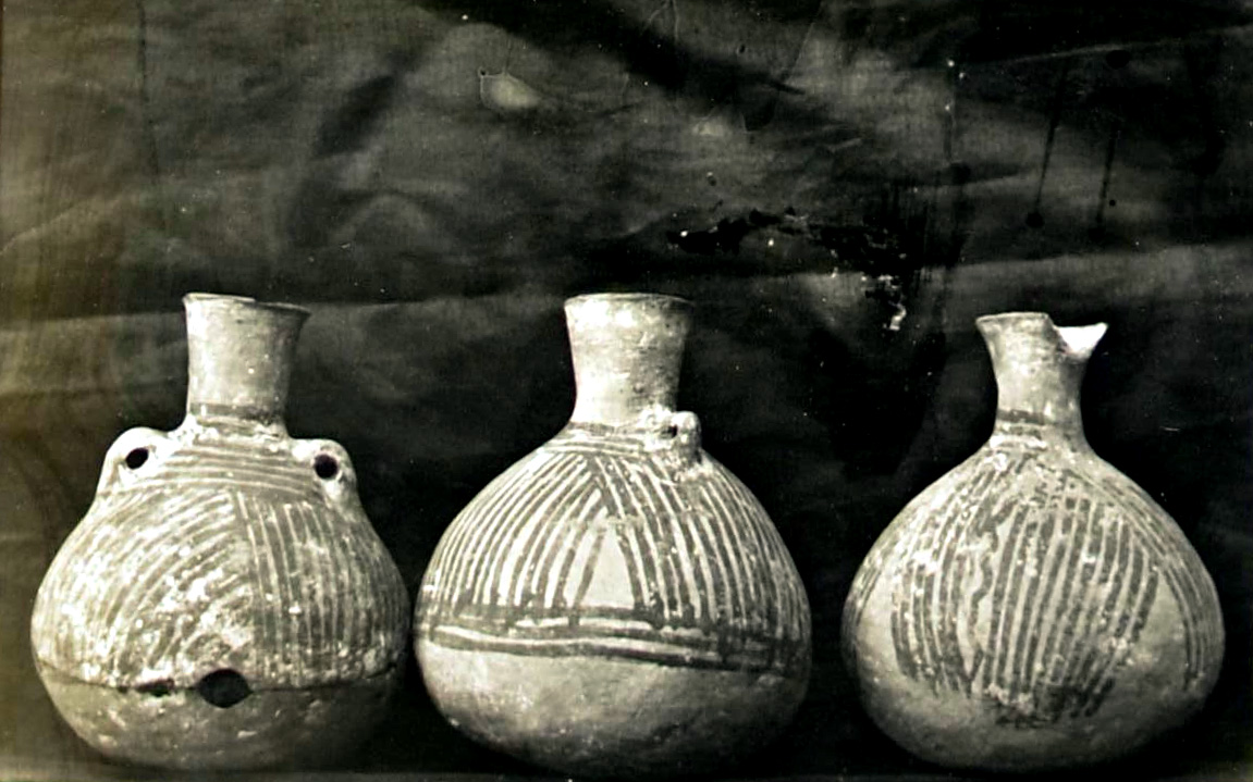 Pottery from the excavation directed by Montagu Brownlow Parker at Mount Ophel, Jerusalem